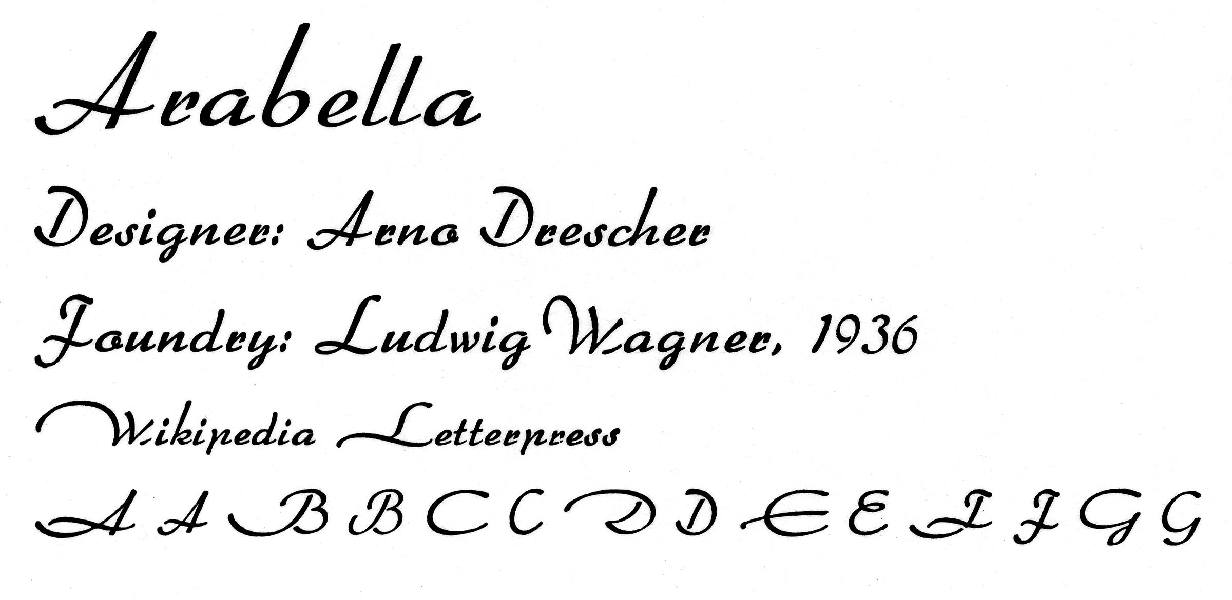 Arabella by Arno Drescher. First published 1936, Ludwig Wagner, Leipzig. Letterpress print.